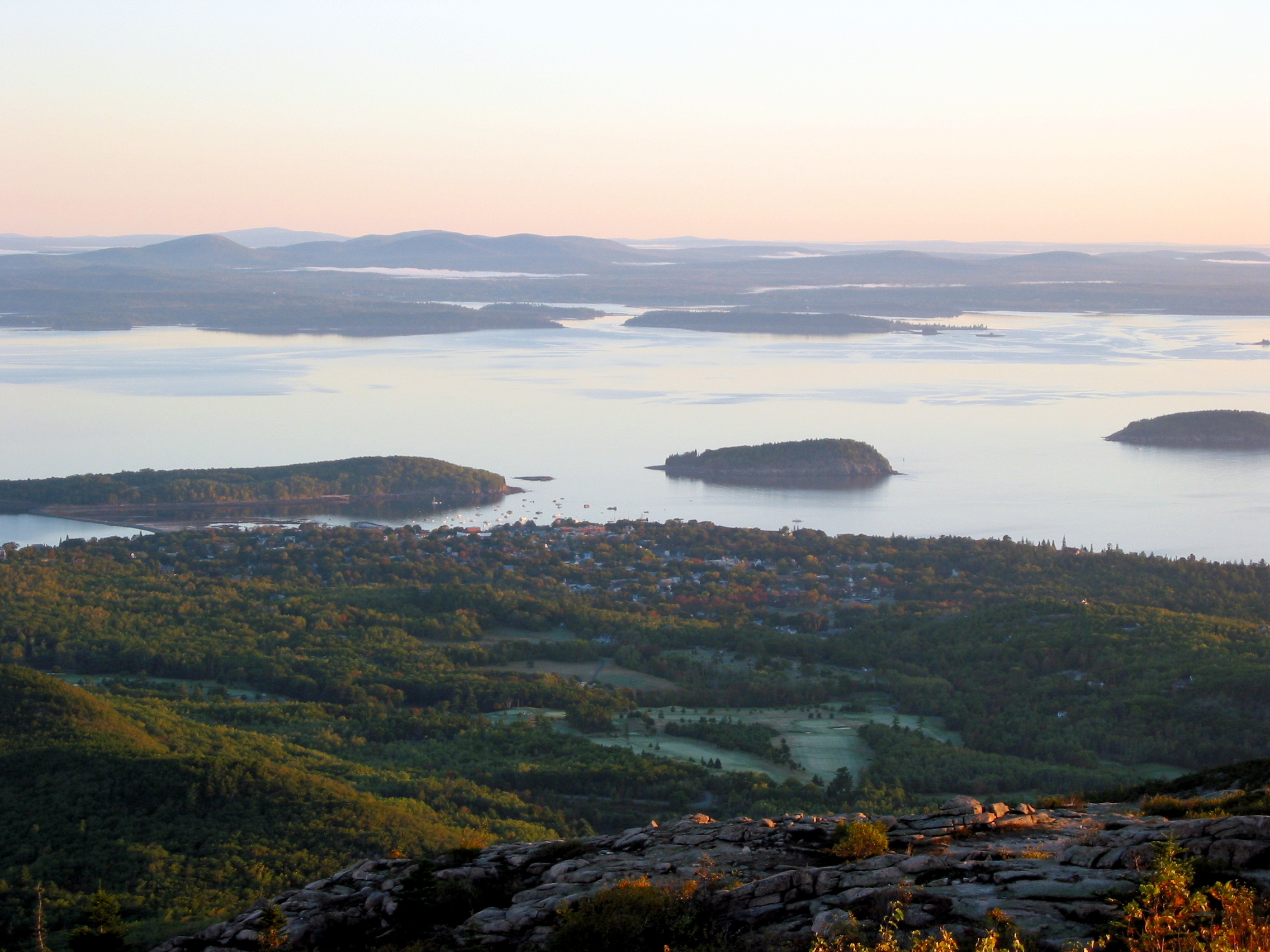 Maine town of Bar Harbor and surrounding areas viewed from Cadillac Mountain